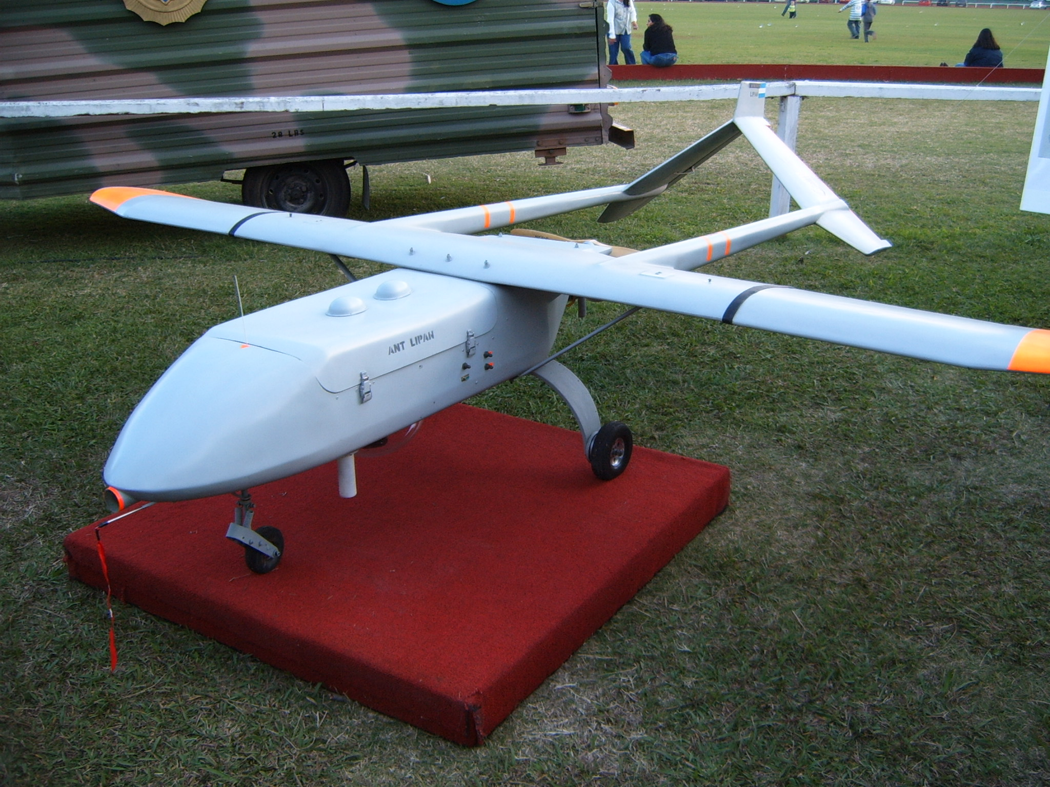 UAV Lipán M3 during an exposition of the Argentine Army